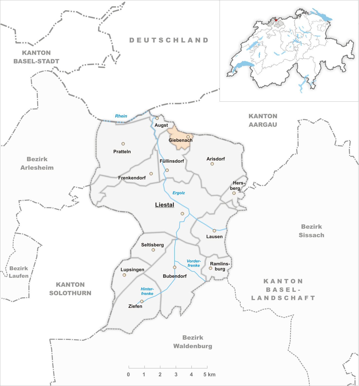 Municipality Giebenach